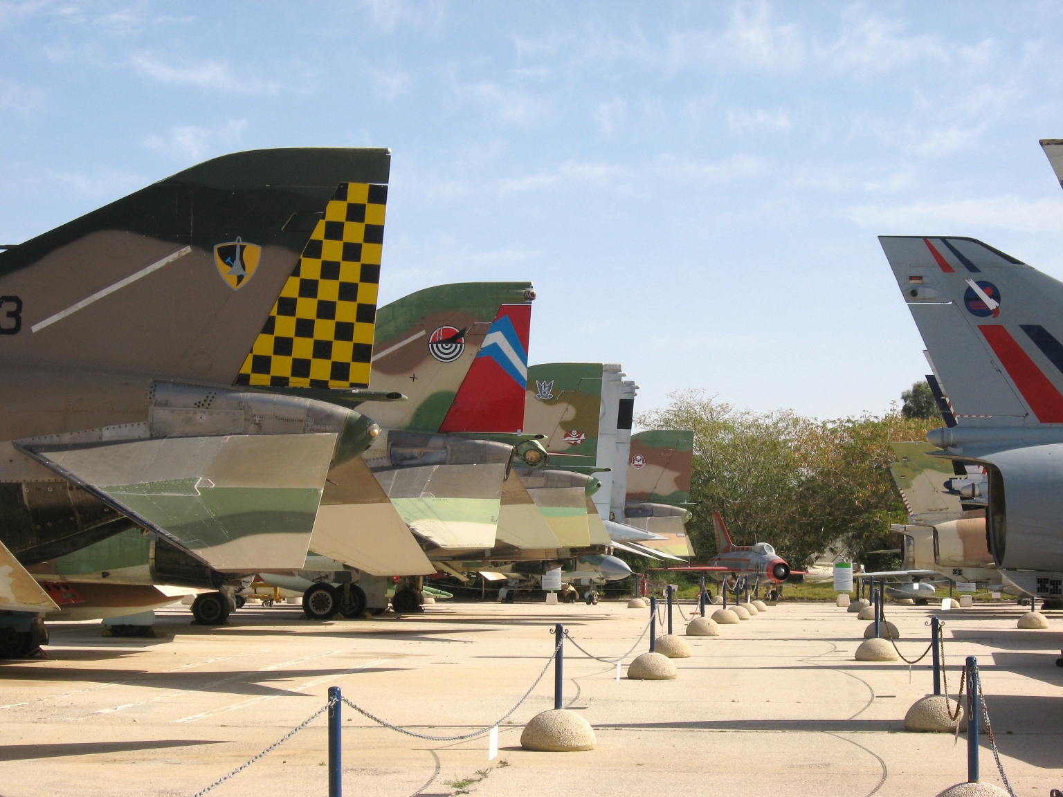 MiG-21 standing at the end of a row of F-4E Phantom IIs (and one F-15), at the Israeli Air Force Museum in Hatzerim